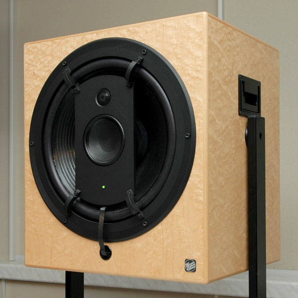 Professional monitor loudspeaker ME Geithain RL 901 K